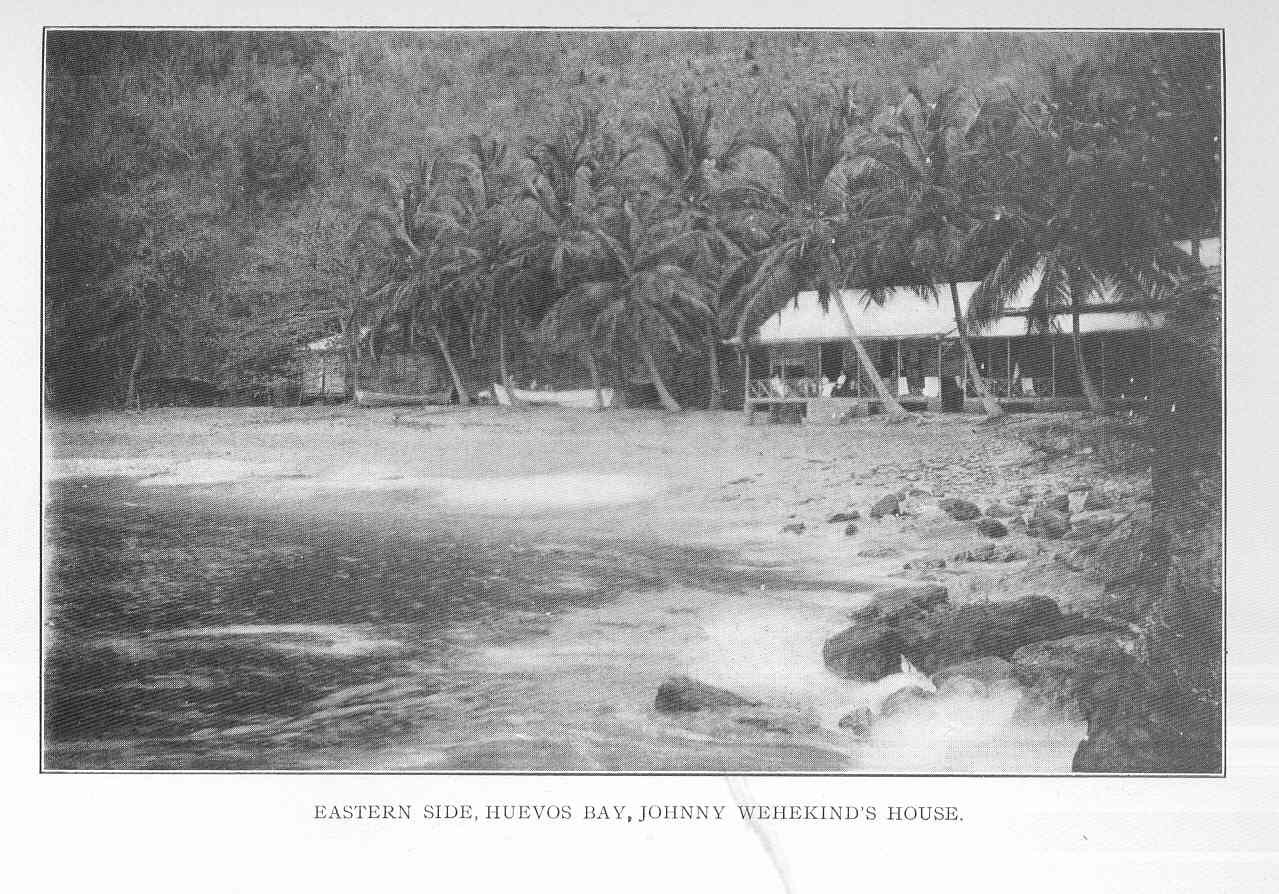 Eastern Side, Huevos Bay, Johnny Wehekind's House Subject: Huevos Bay (Trinidad and Tobago), Dwellings--Trinidad and Tobago--Huevos Bay Geographic Subject: Trinidad and Tobago--Huevos Bay Tag: Coasts